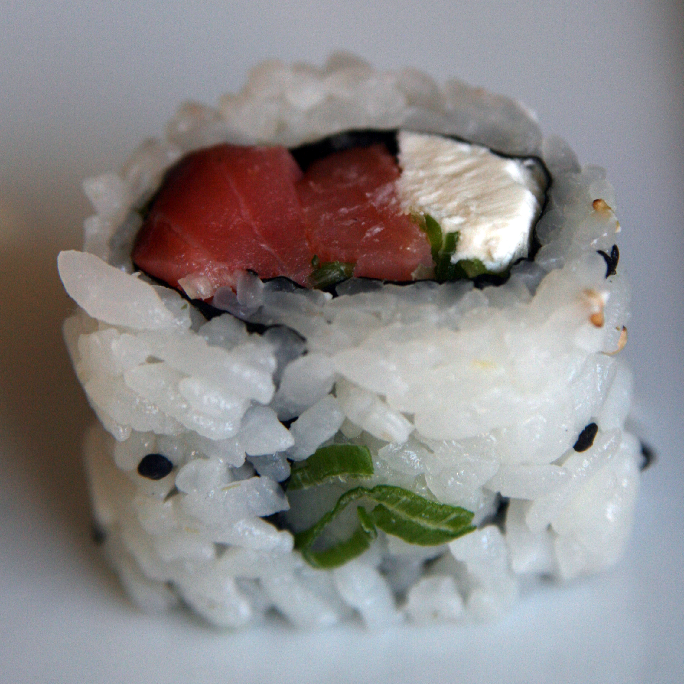 Philly roll Philadelphia roll smoked salmon cream cheese green onion Shinju Sushi